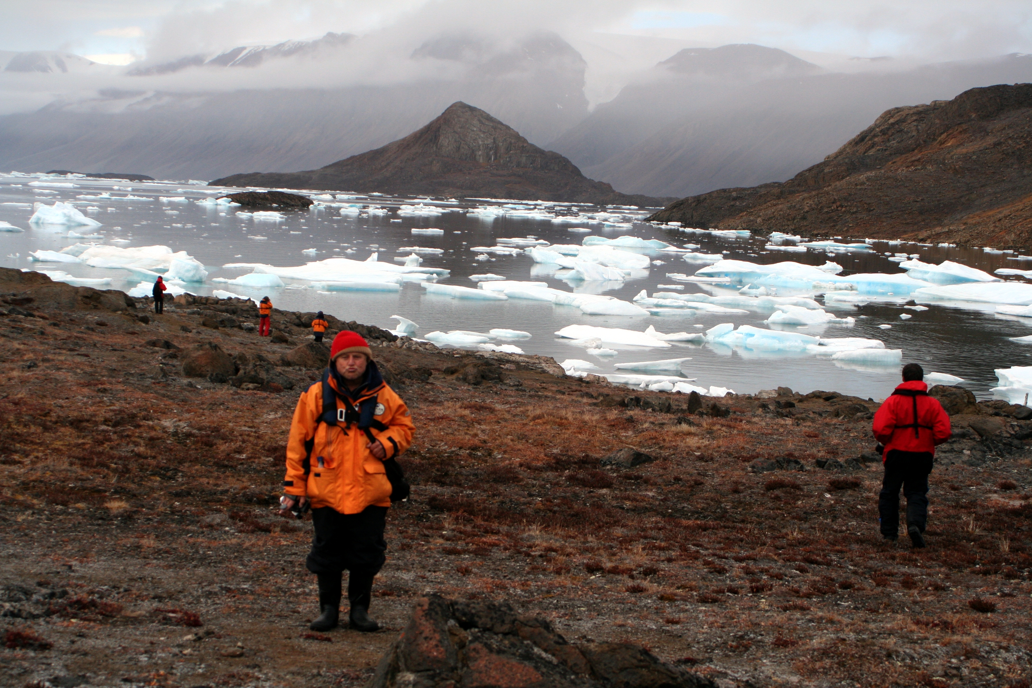 Tundra and Icebergs in High Arctic